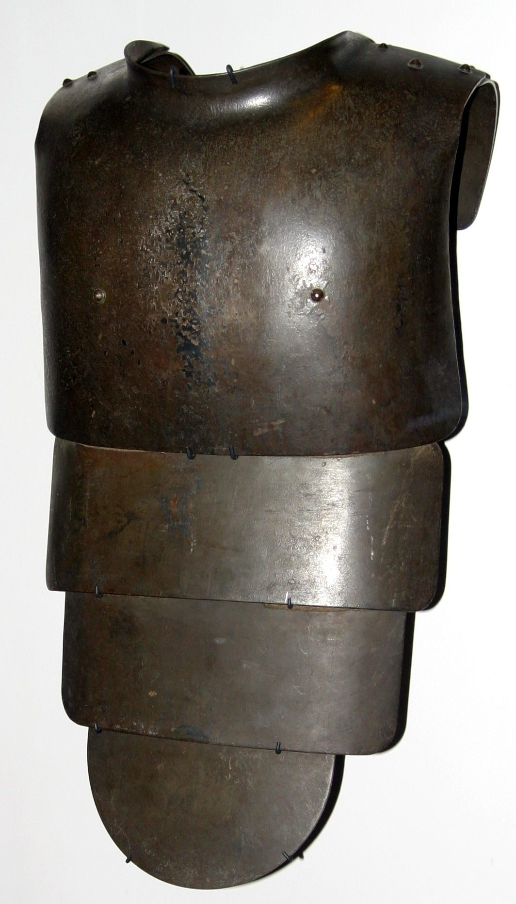 Description: World War I german Infantrie-Panzer, 1918. Source for the data: "Body Armour", ISBN 1574882937